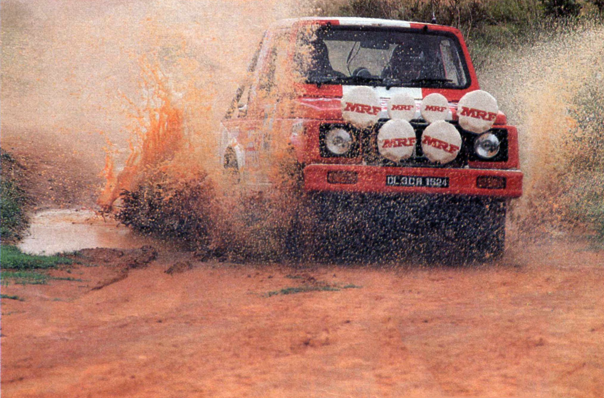 N. Leelakrishnan in a Team MRF's Group A(II) IND Rally spec Maruti Gypsy Rally Car in 1993.